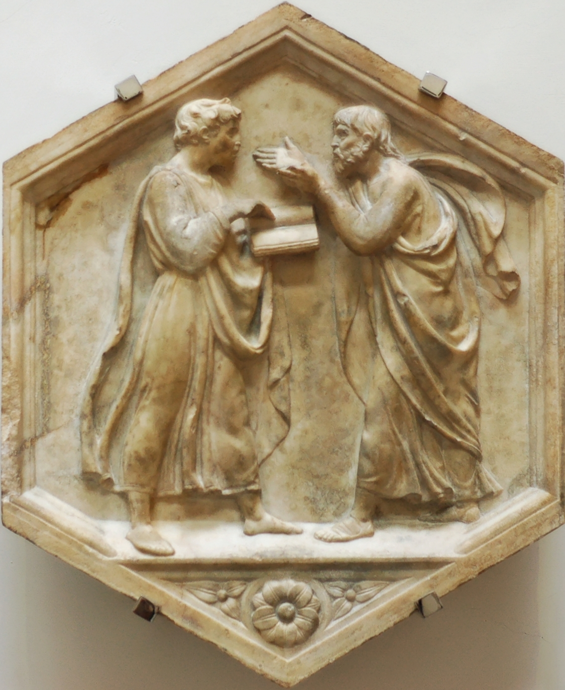 Plato and Aristotle, or Philosophy. Marble panel from the North side, lower basement of the bell tower of Florence, Italy. Museo dell'Opera del Duomo.